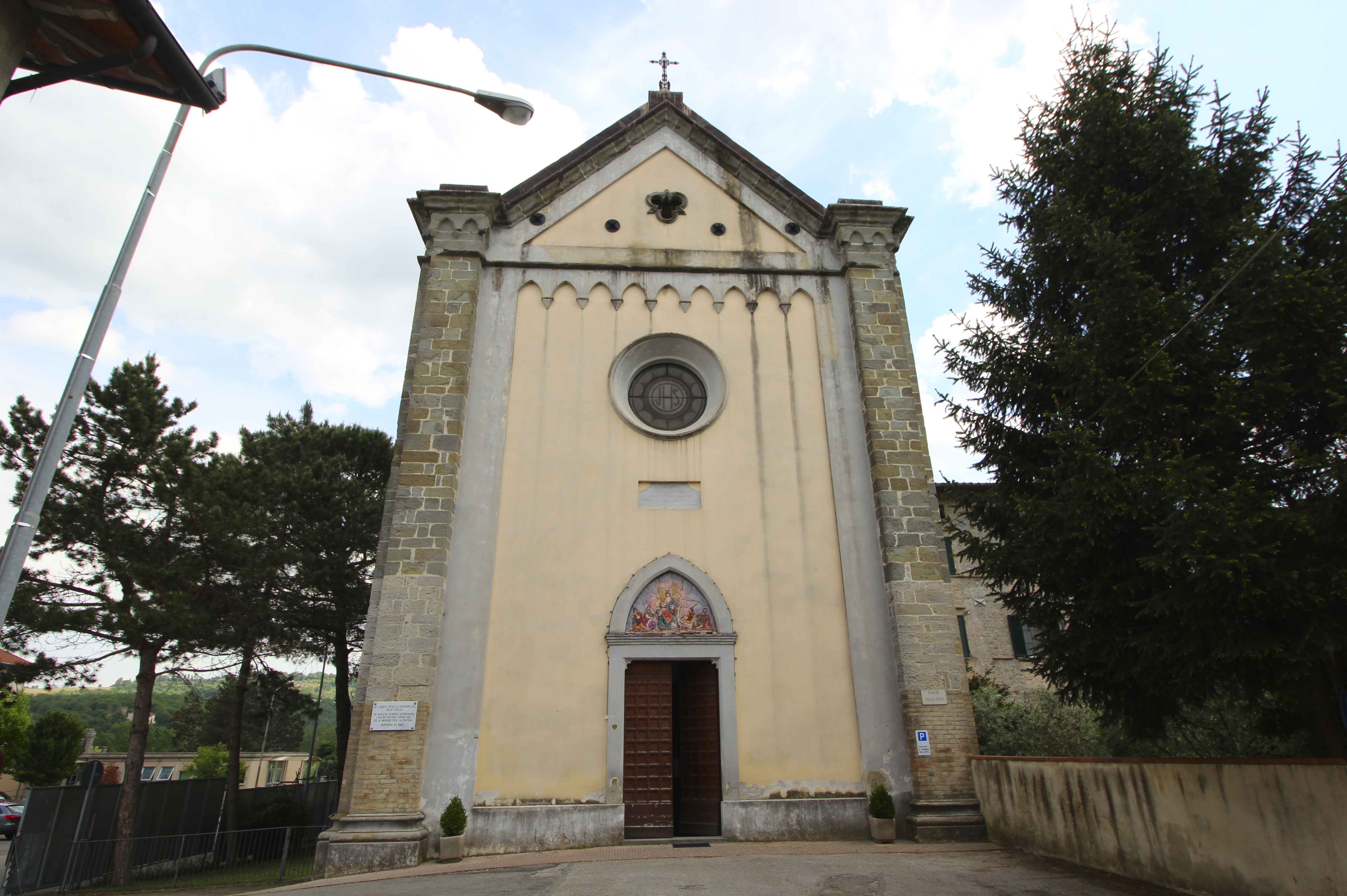 Church San Pietro, built 1890, Montecastelli, hamlet of Umbertide, Umbria, Italy